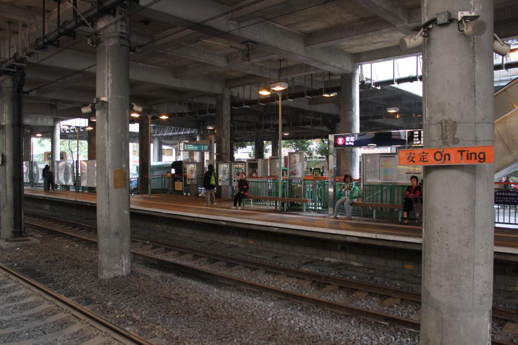 on ting stop1